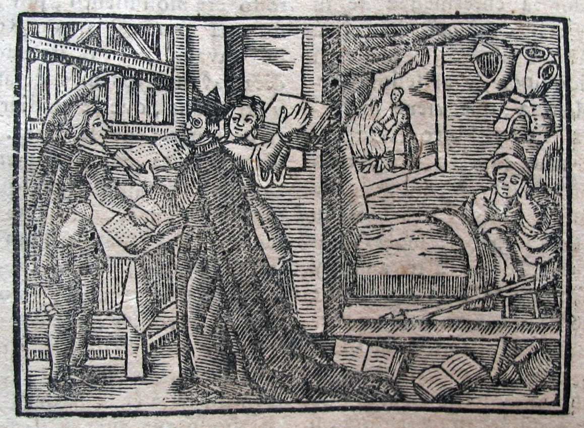 Scrutiny of the priest and the barber of Don Quixote's library. Woodcut from the 1741 edition